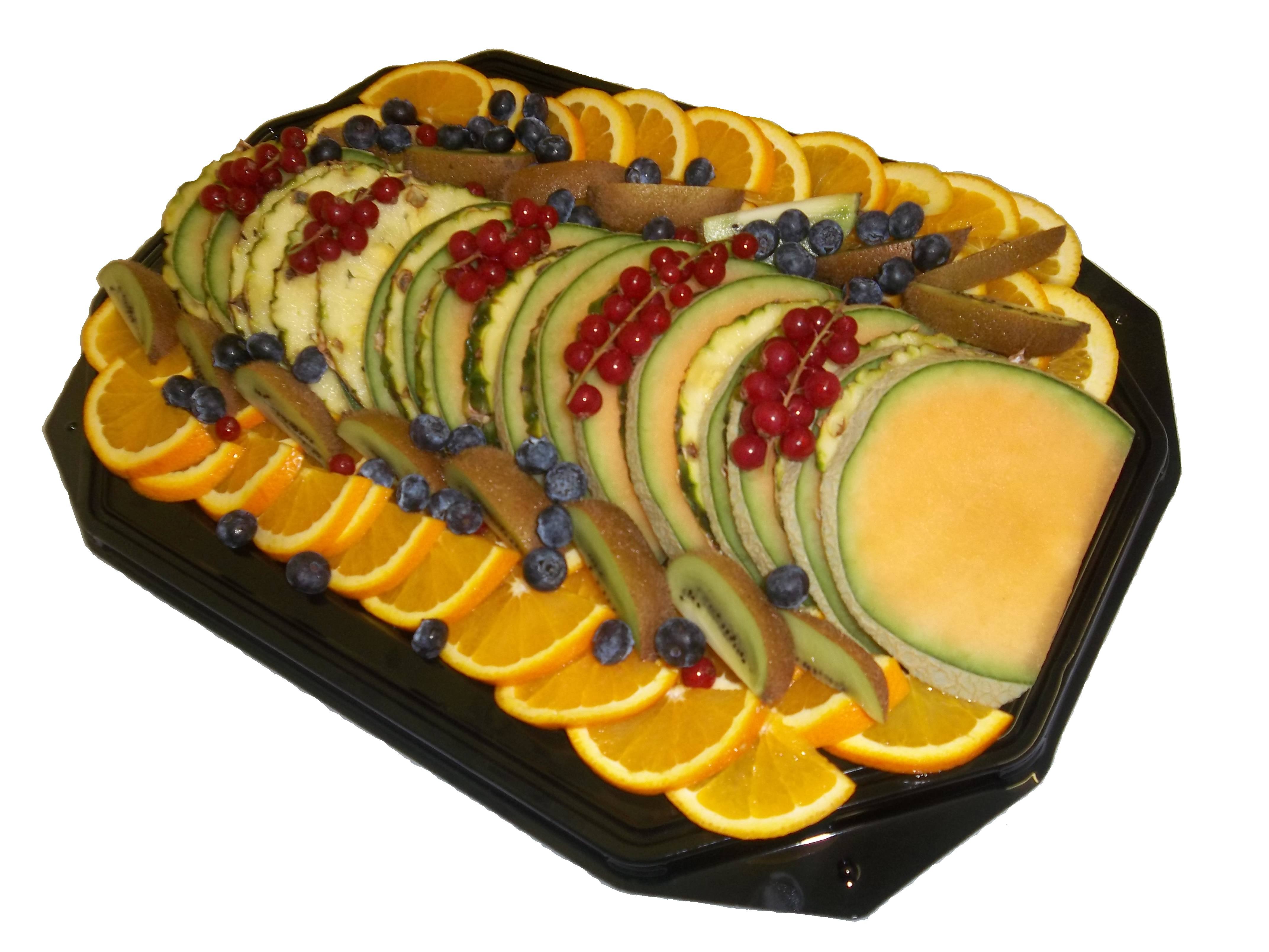 Tropical Fruit Platter used in buffet catering. Raw fruit sliced into bite sized pieces.